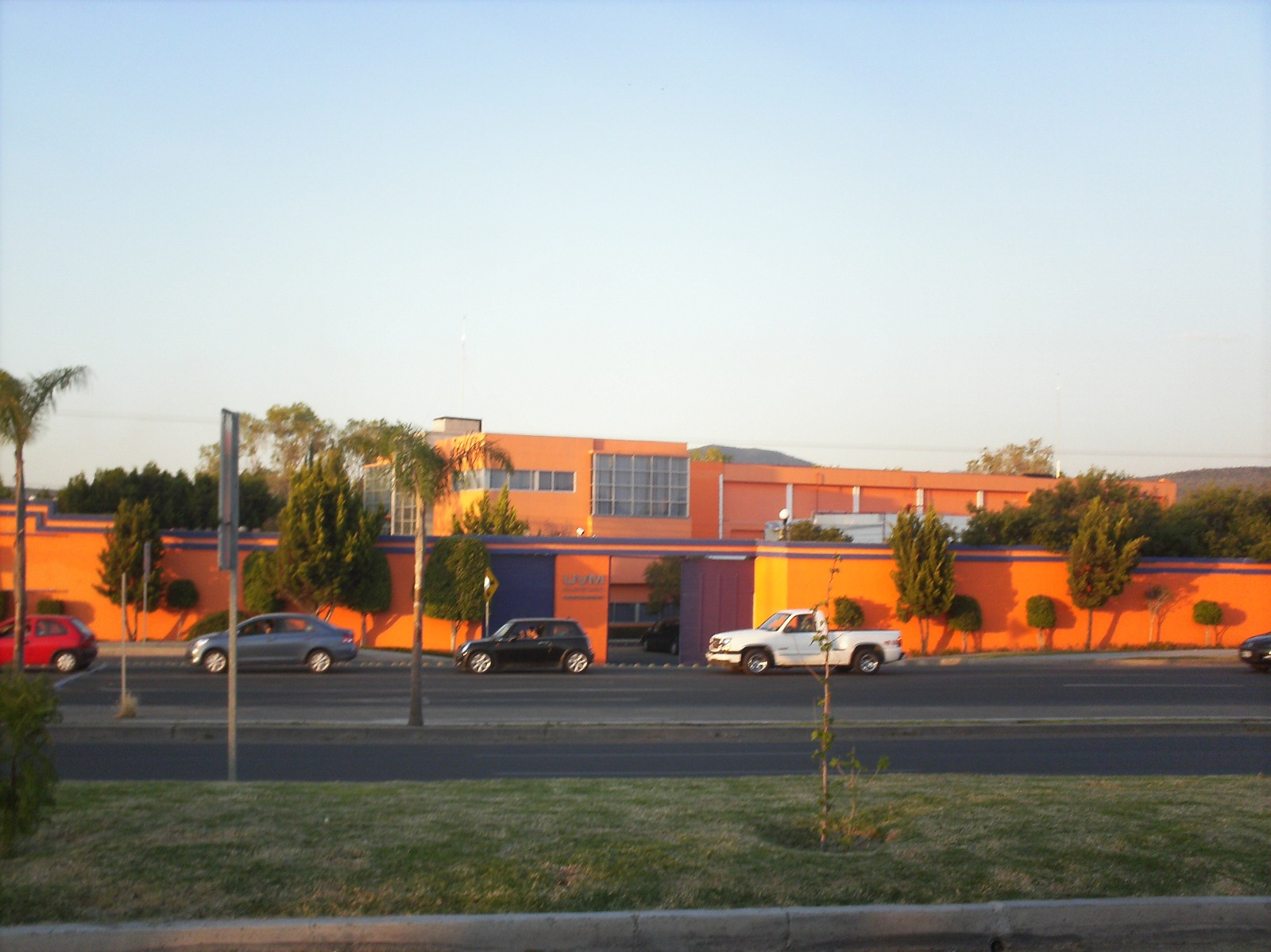 UVM campus in Juriquilla (Querétaro)